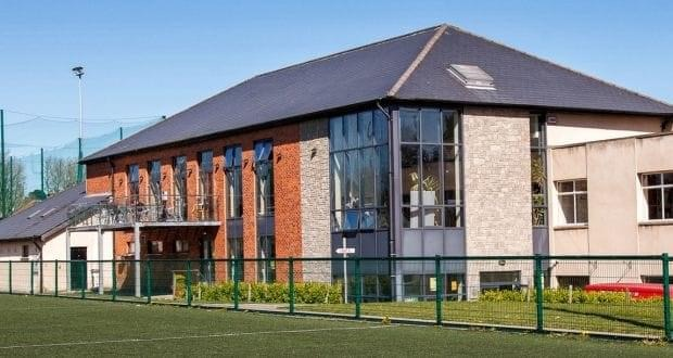 Na Fianna GAA clubhouse which was officially opened in 2007